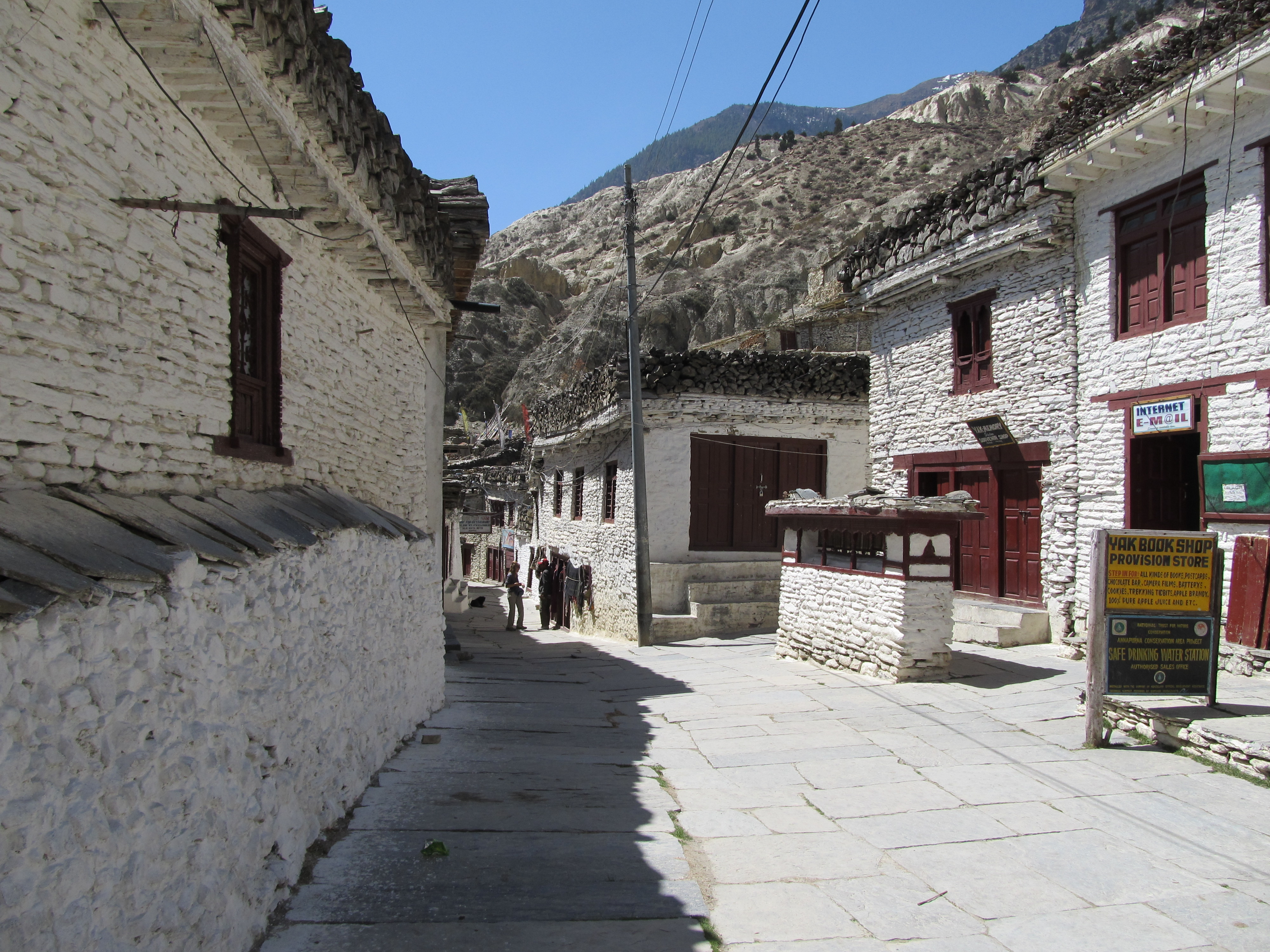 Main street in Marpha